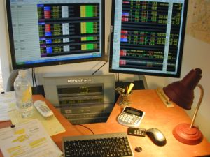 Example of a homemade Treadmill Desk.